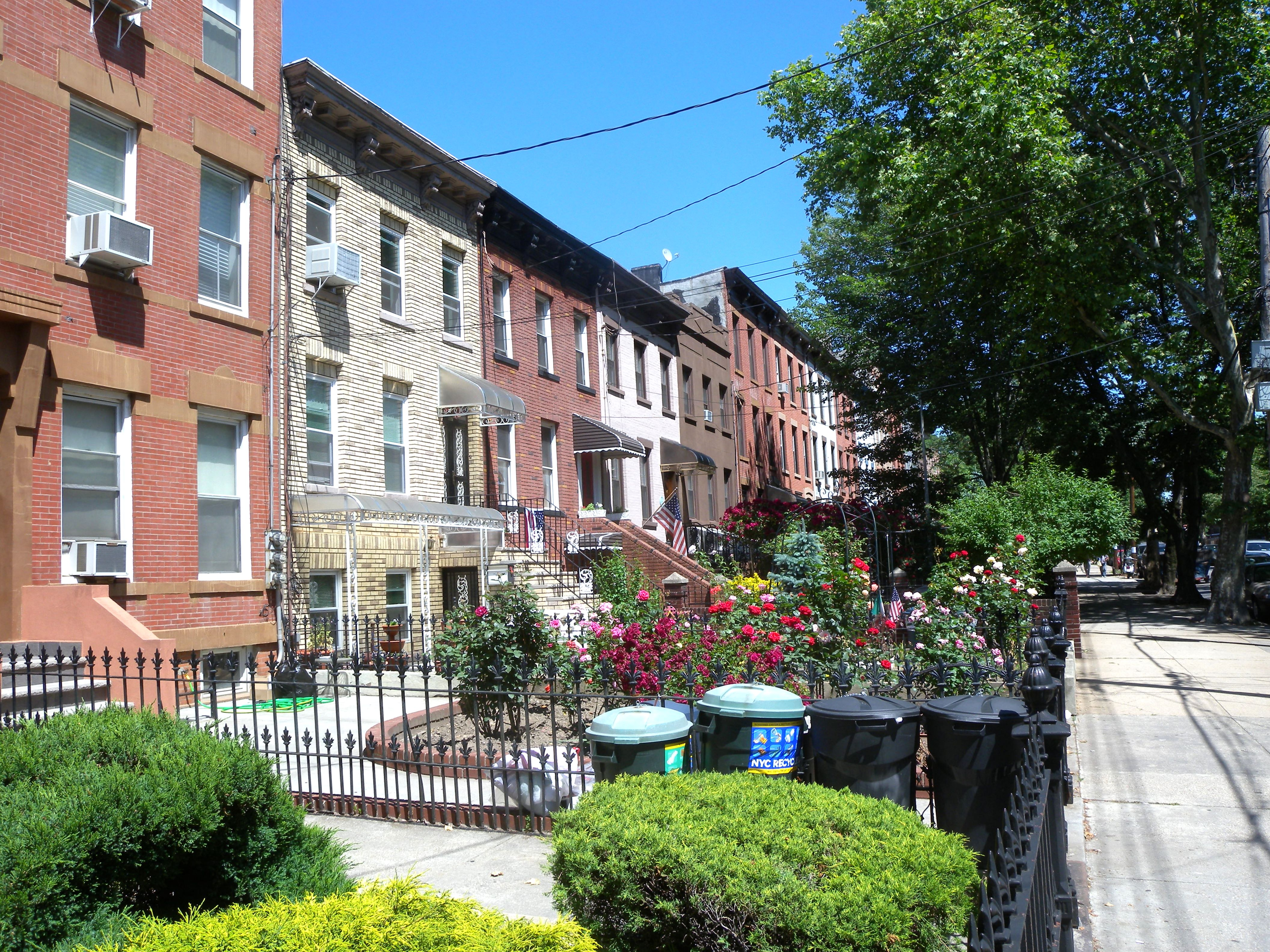 Looking east at front gardens in Carroll Gardens